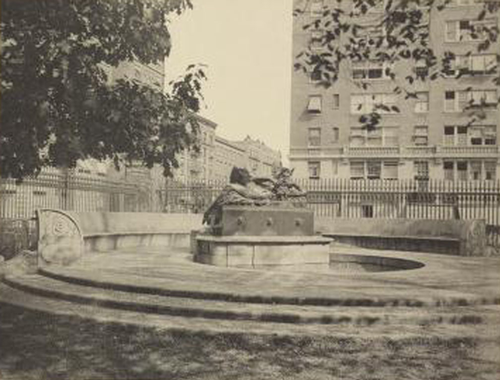 Caption: "Fountain of the Great God Pan – 1907 / Sculpture by George Gray Barnard."